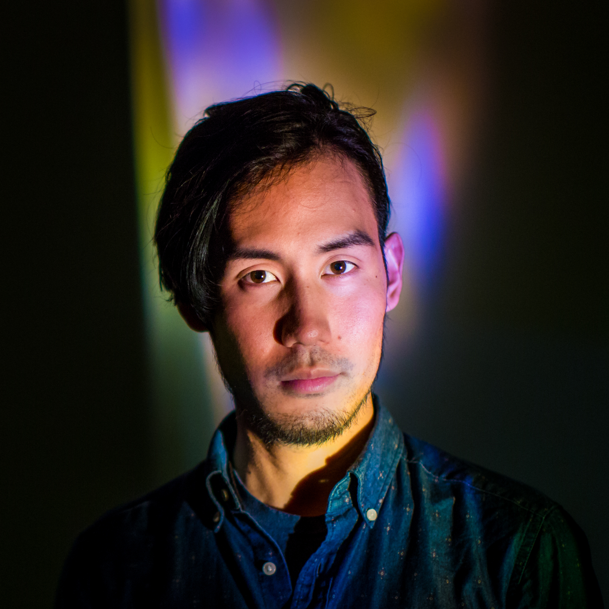 Portrait of Kei Ito.